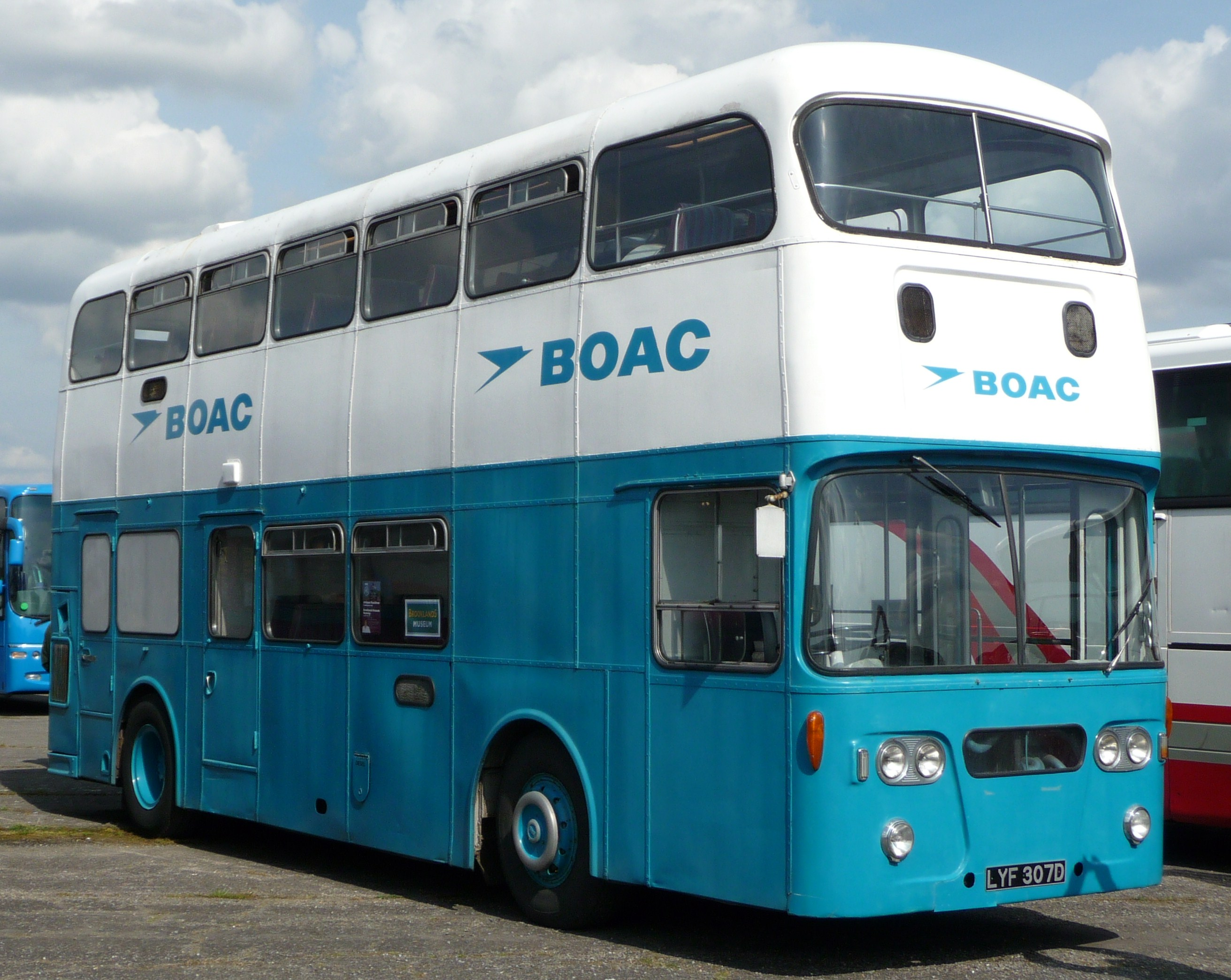 Preserved British Overseas Airways Corporation LYF 307D, a Leyland Atlantean/MCW, at the 2009 Cobham bus rally at Wisley Airfield.